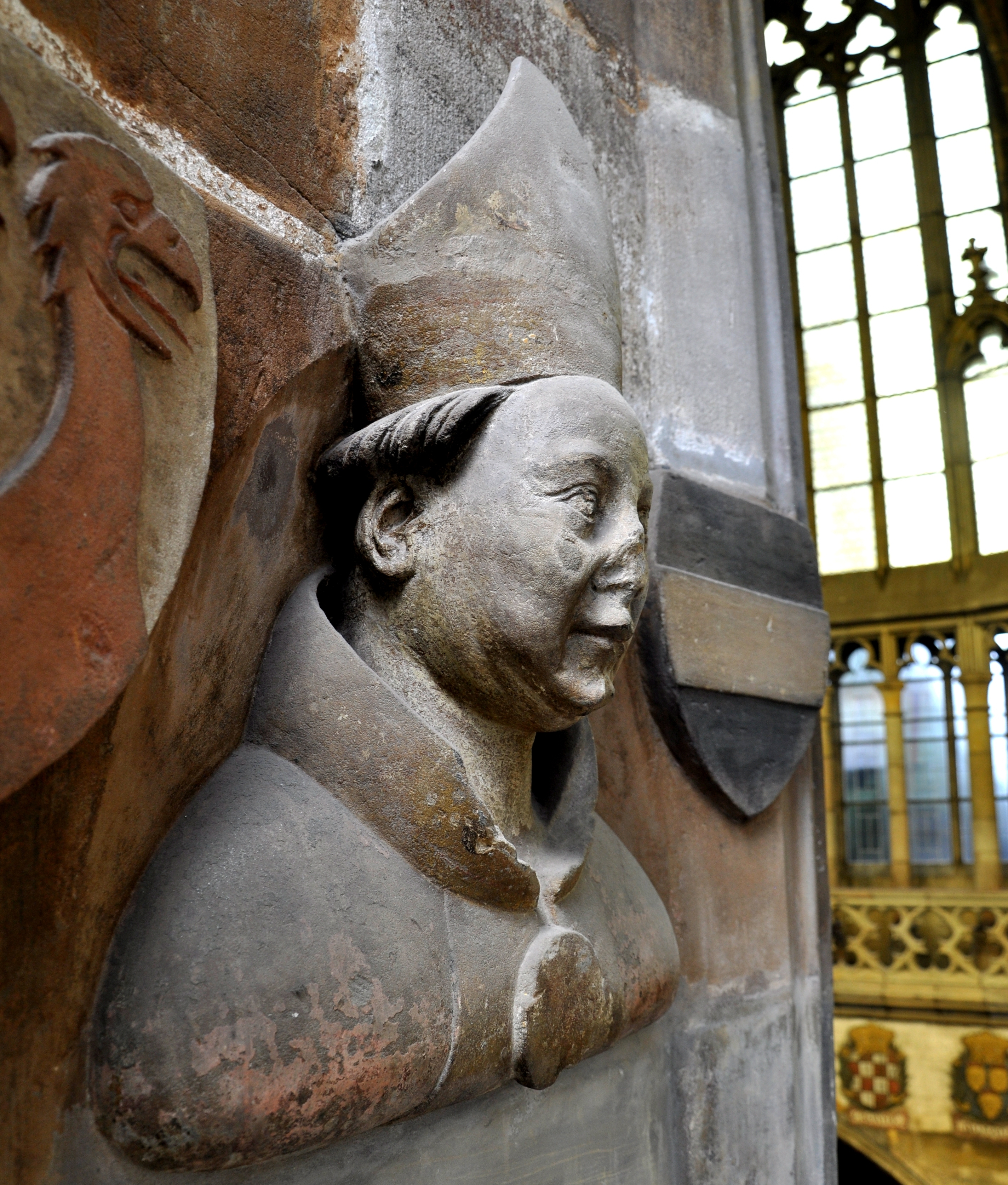 Jan Ocko z Vlasimi, the second archbishop of Prague. St. Vitus Cathedral in Prague.